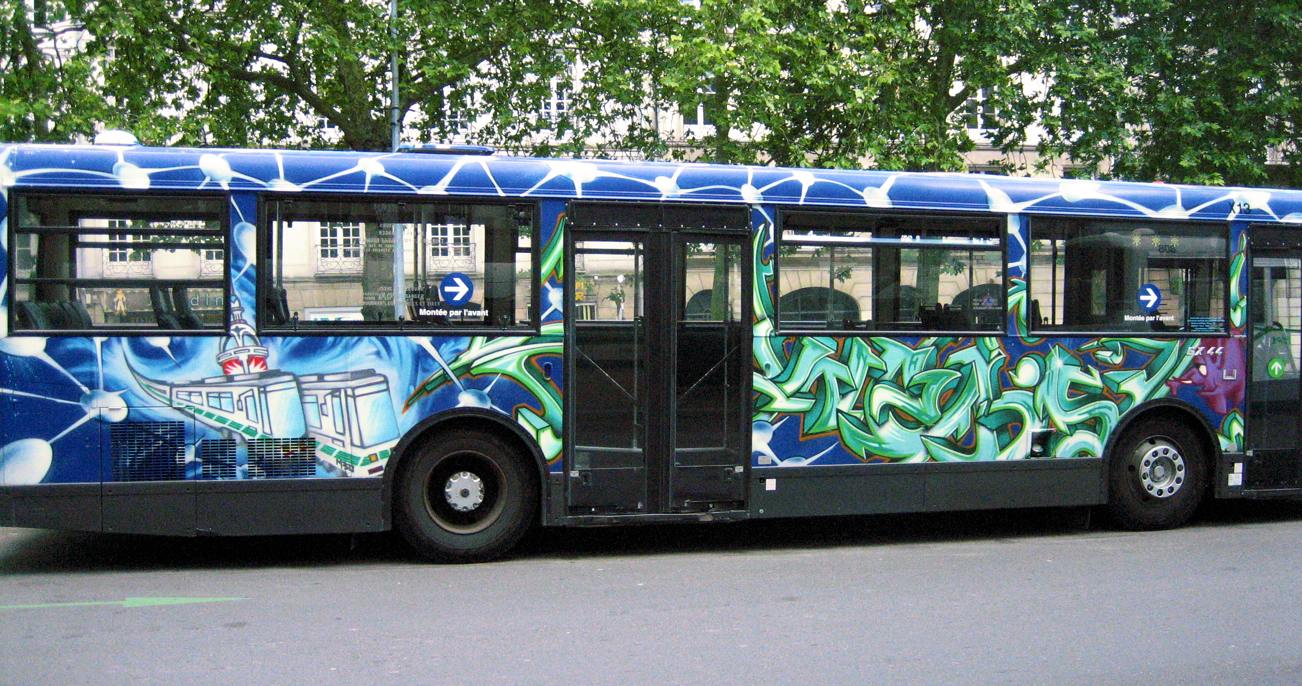 A decorated bus in Nantes by Web's and Darco.